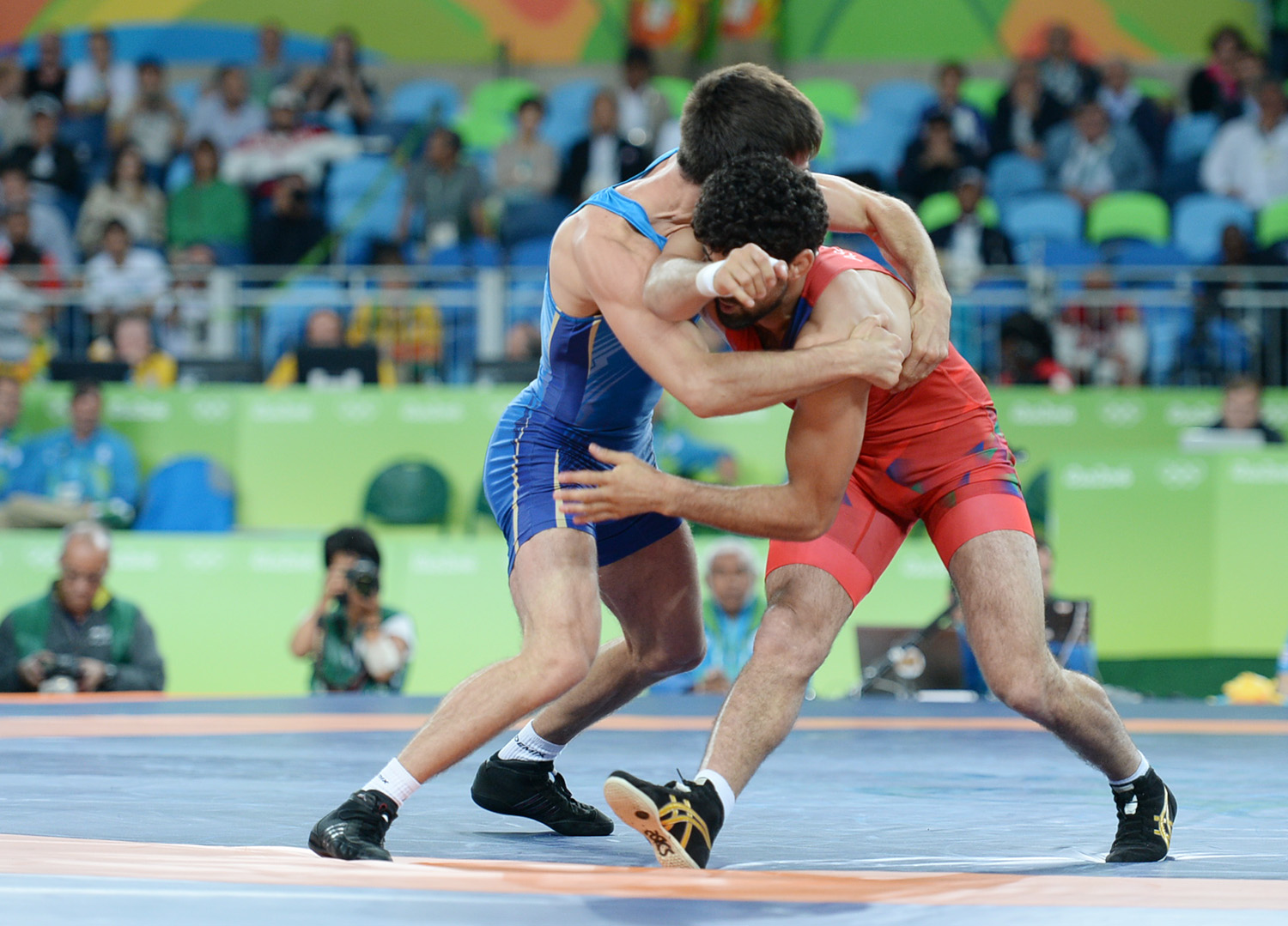 Wrestling at the 2016 Summer Olympics, Asgarov vs Ramonov